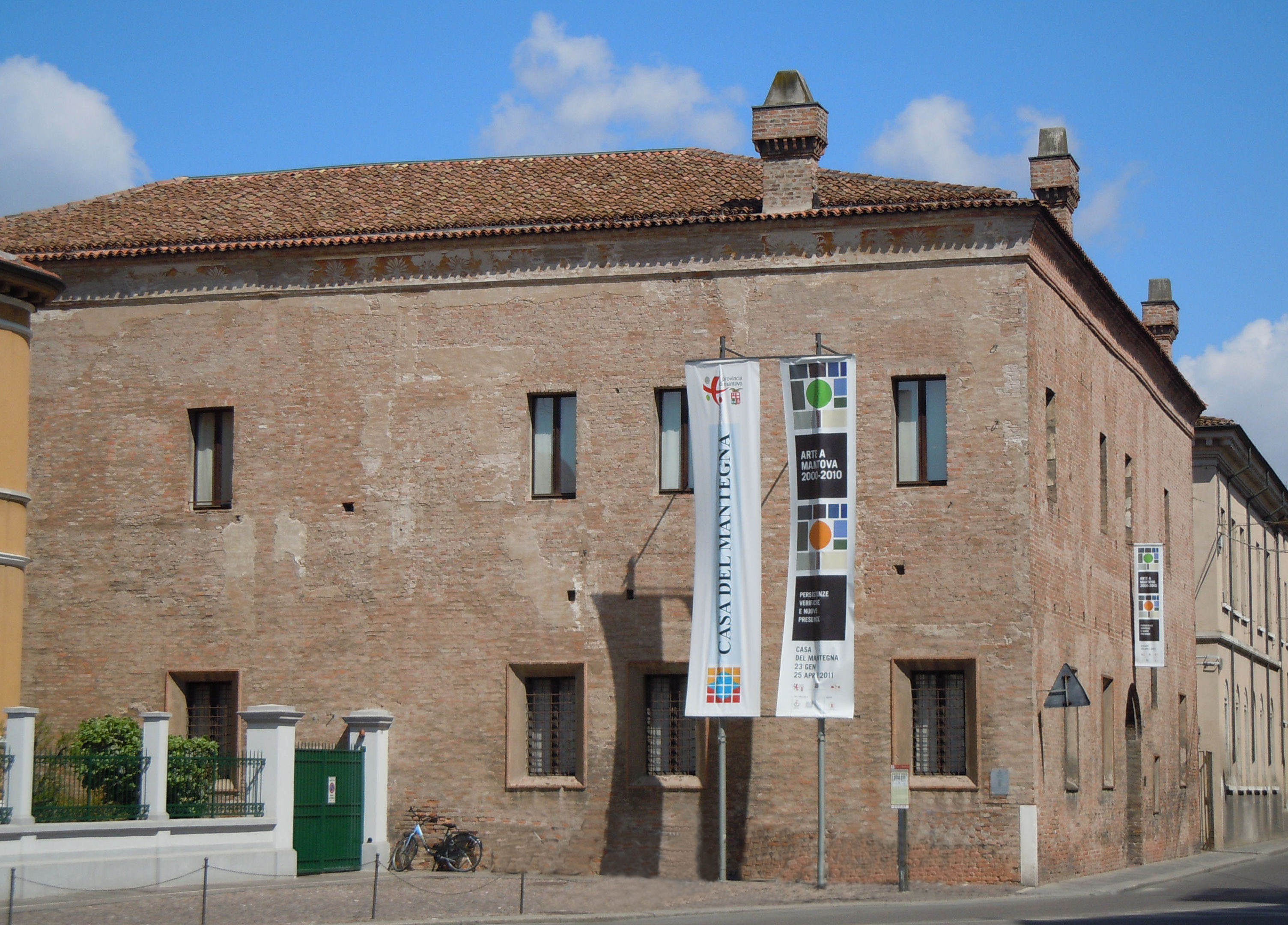 Mantova, casa del Mantegna.